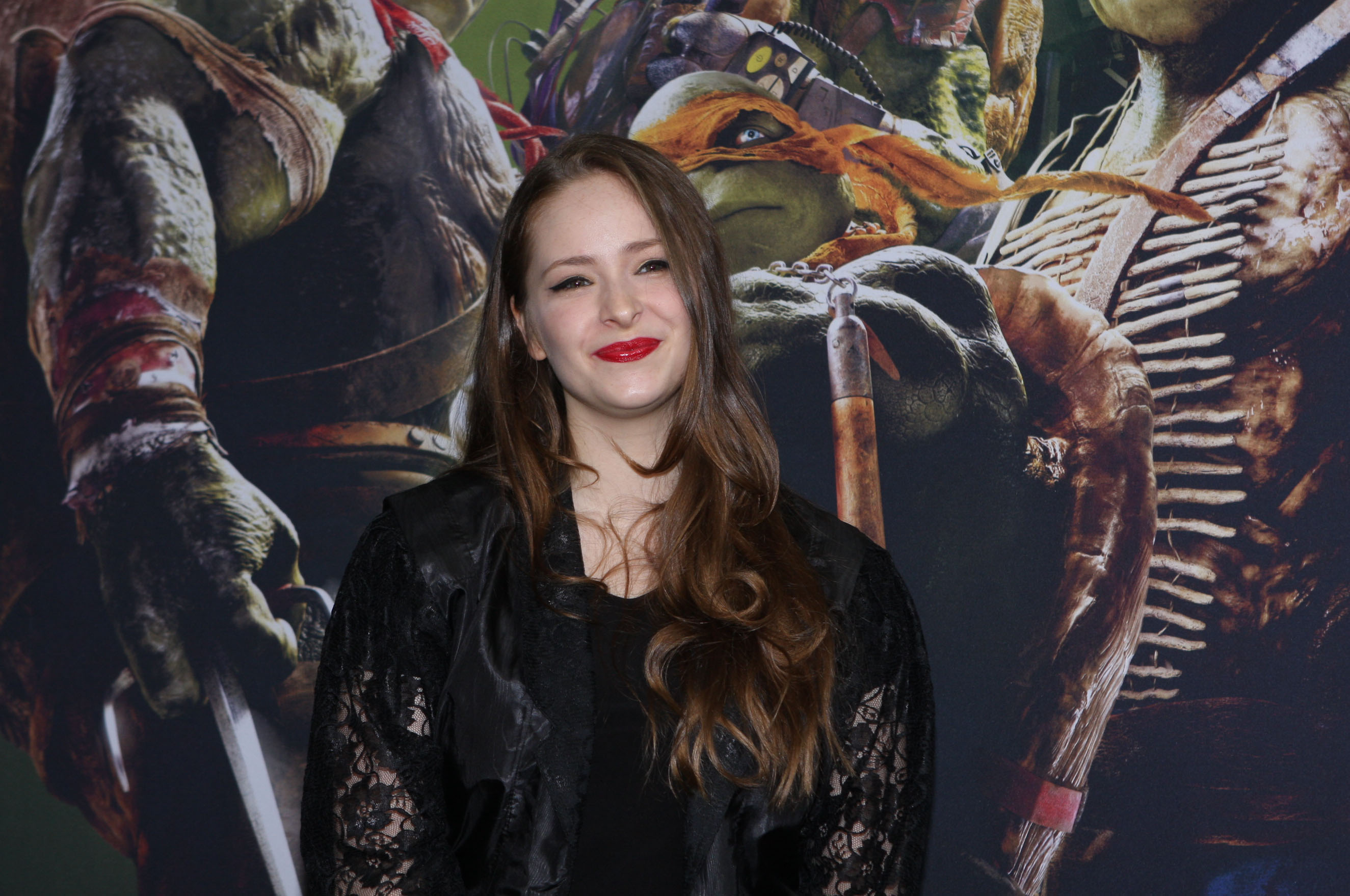 Ashleigh Cummings at the Teenage Mutant Ninja Turtles Special Event Screening